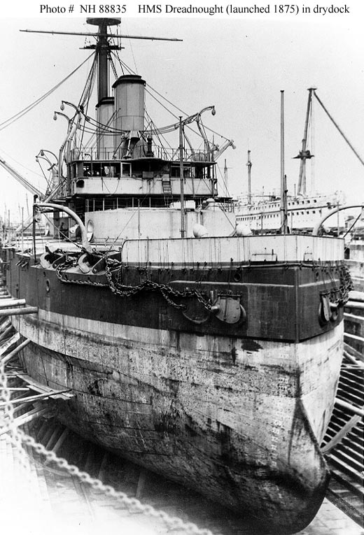 USNHC caption : "HMS Dreadnought (British Battleship, launched 1875). In dry dock while under refit, with a Jumna class troopship in the right background. Date may be prior to 1885, when she was fitted with Nordenfelt machine guns on both sides of the flying deck abaft the bridge. Note her ram bow."